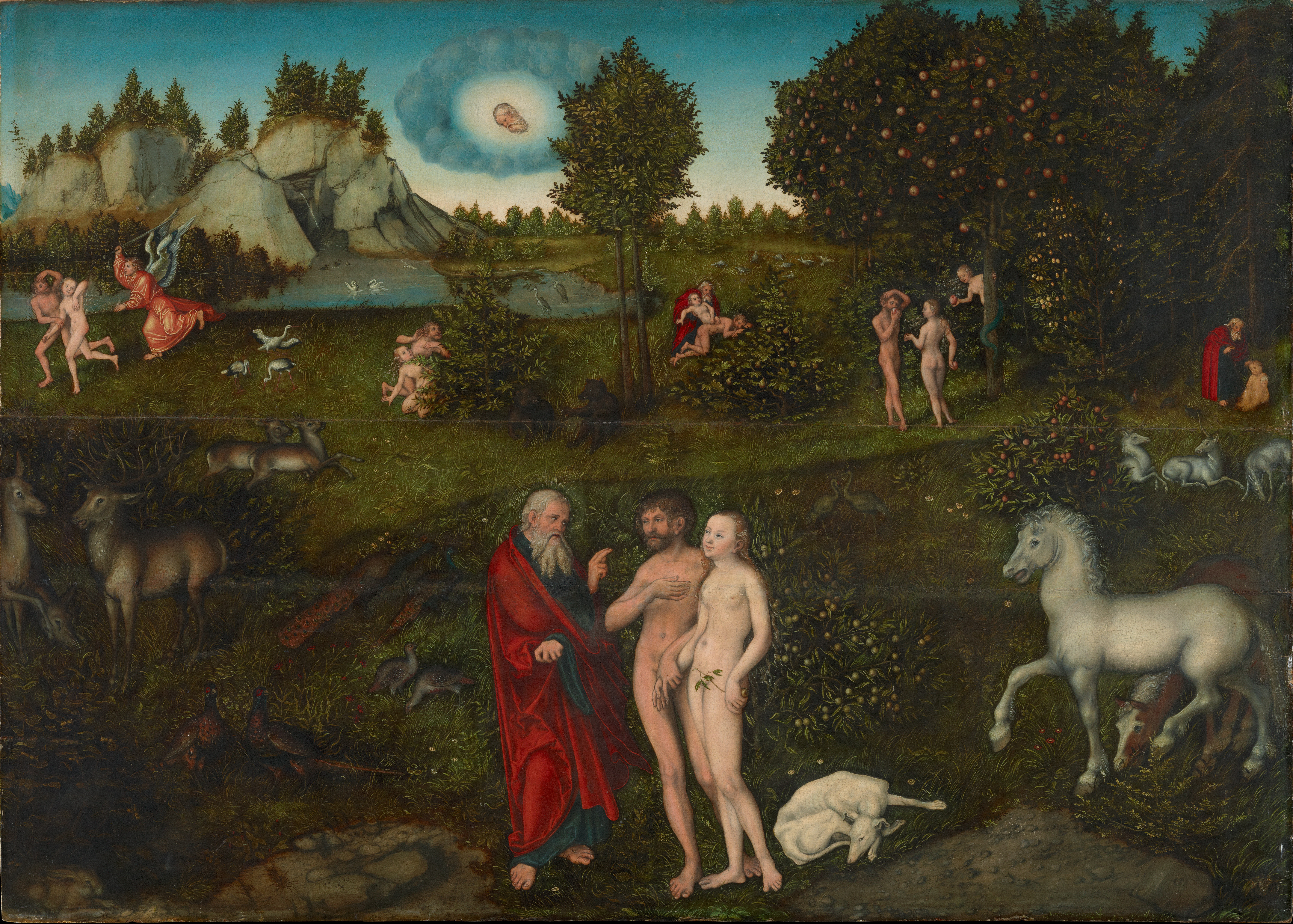 In the foreground: Prohibition of God to Adam and Eve, in the middle ground: Creation of Adam, the Fall, Discovery of the Fall, the Expulsion from Paradise